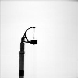 Phoenix Mars spacecraft's MET weather mast deployed on the surface of Mars, as imaged by Phoenix on Sol 1 day 2. The top of the mast contains one of the three rectangular temperature sensors and the wind monitor. They are both 2.3 metres above the surface. The wind monitor, known as a telltale and made by Denmark's Aarhus University, comprises a vertical tube and a suspended ball, and Phoenix cameras will measure its movement and determine wind direction and strength. Original description: This image was acquired at the Phoenix landing site on day 2 of the mission on the surface of Mars, or Sol 1, after the May 25, 2008, landing. The surface stereo imager right acquired this image at 14:55:01 local solar time. The camera pointing was elevation 10.7538 degrees and azimuth 236.65 degrees. Related images: collage of unenhanced with enhanced Sol 2 day 3 high resolution images side by side blend of unenhanced with enhanced mirror region of Sol 2 day 3 high resolution image